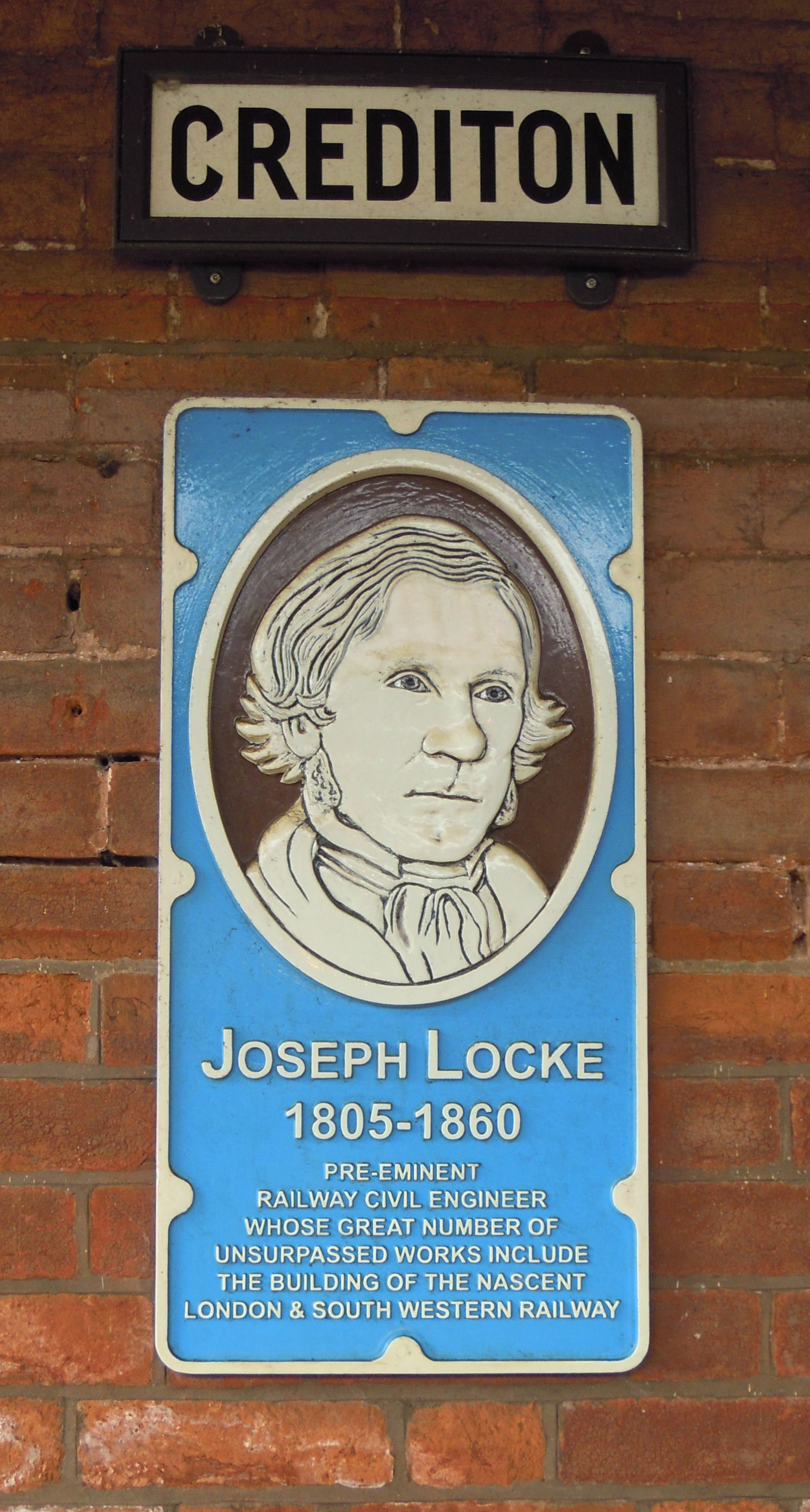 Plaque to railway engineer Joseph Locke (1805-1860) on the platform at Crediton railway station at Crediton in Devon